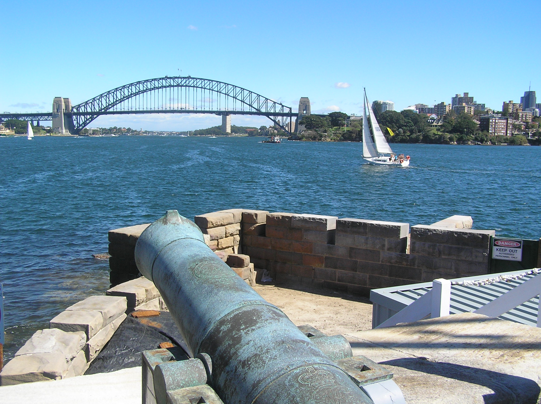 Centremost of three SBML 12-pounder 10 cwt bronze howitzers facing west on Fort Denison, Sydney Harbour.